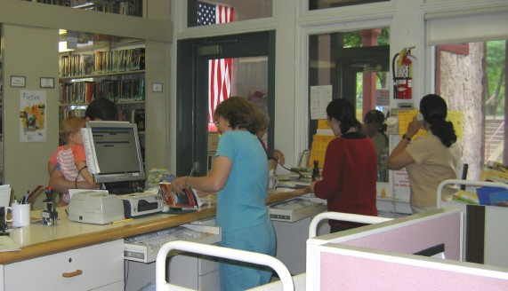 The Briarcliff Manor Public Library c. 1990s, in the original train station. The circulation desk is pictured. These files were bequeathed to the BMSHS by the library director and uploaded here as part of my volunteer position as Wikipedian in Residence at the BMSHS.